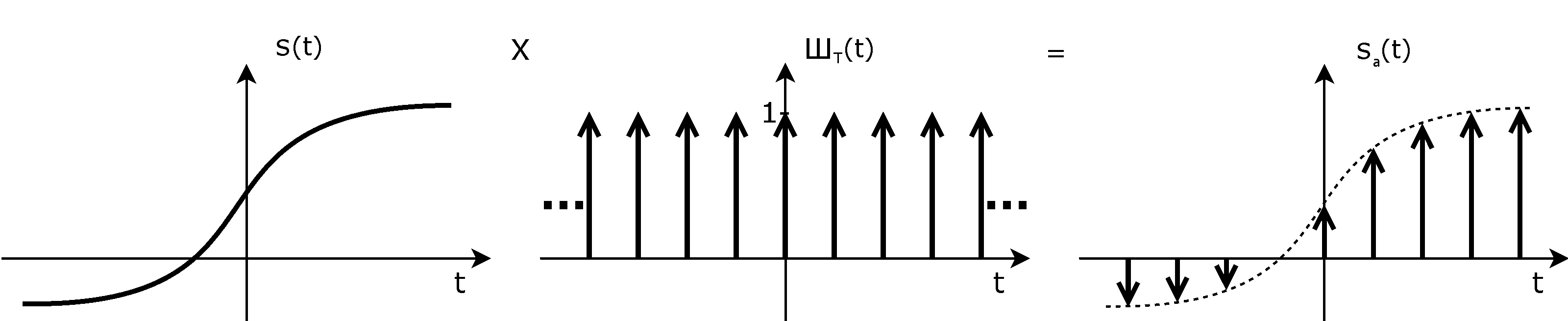 sampling by multiplication with Dirac comb